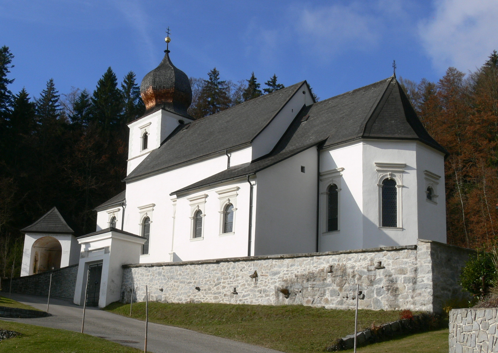 St.Wolfgang am Stein ( Schlägl/Upper Austria ). Saint Wolfgang church ( 1644 ).